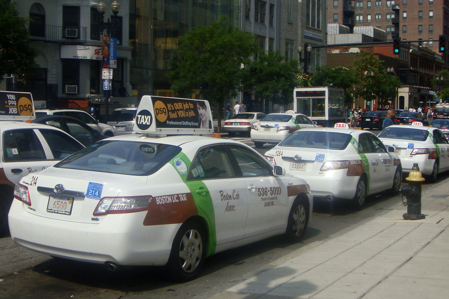 CleanAir Cab program hybrid taxis in Boston. CleanAir participants are identified by the green strip livery toward the back of the vehice and the white & blue CAB symbol.